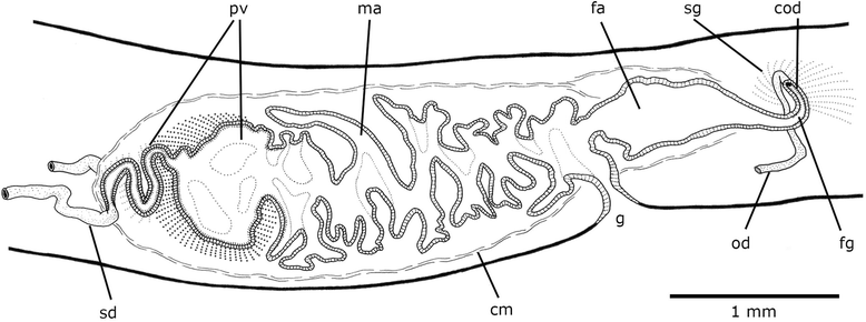 Sagittal schematic drawing of the copulatory apparatus of Notogynaphallia nawei: cm, common muscular coat; cod, common ovovitelline duct; fa, female atrium; fg female genital canal; g, gonopore; ma, male atrium; od ovovitelline duct; pv prostatic vesicle; sd, seminal ducts; sg, shell glands.